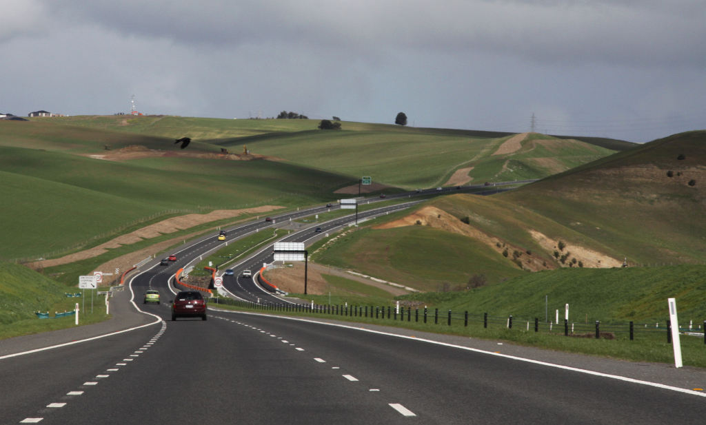 Stage 3 of the Geelong Ring Road, looking south towards the Barrabool Hills and the bridge over the Barwon River